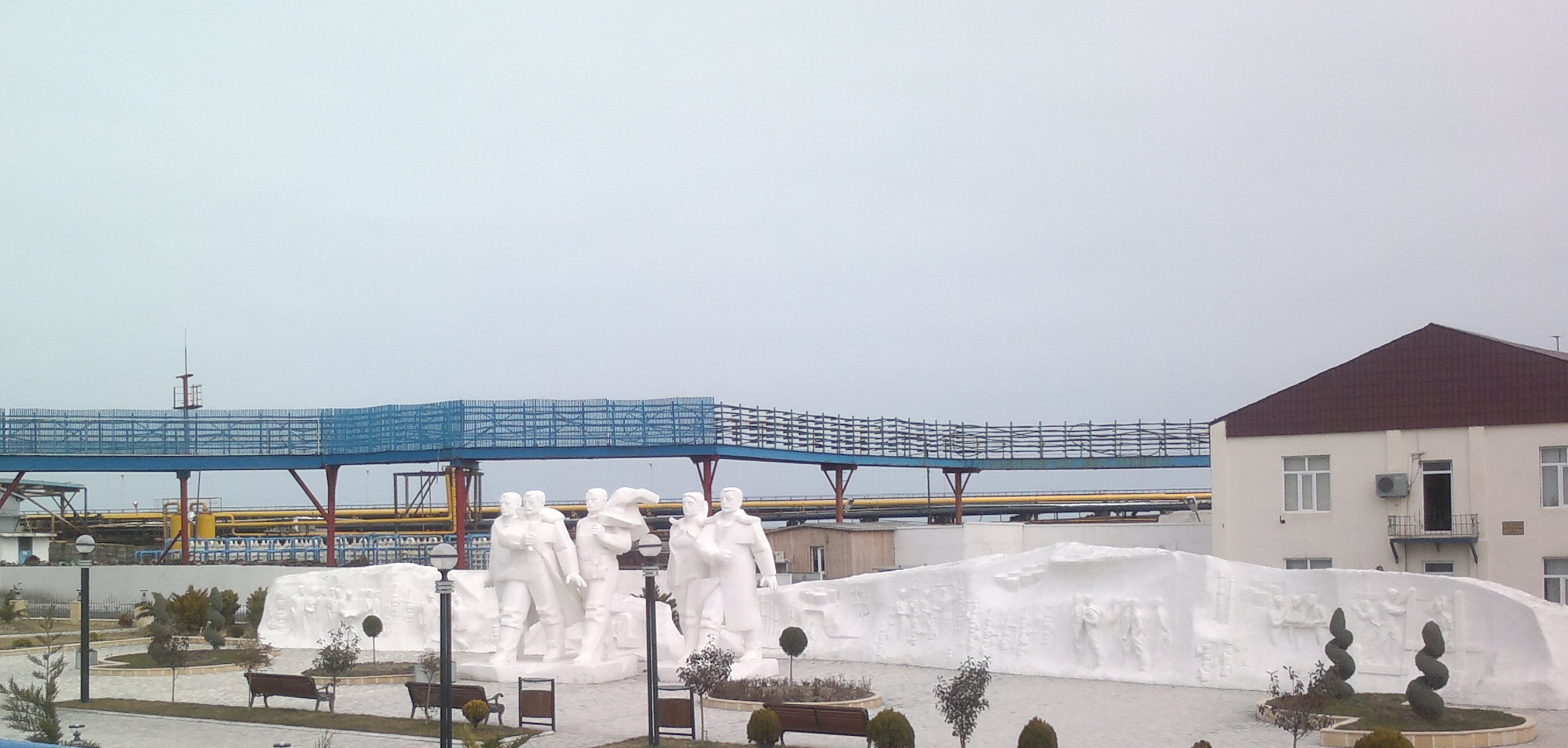 Monument of workers in Oil Rocks, Azerbaijan, Caspian Sea.